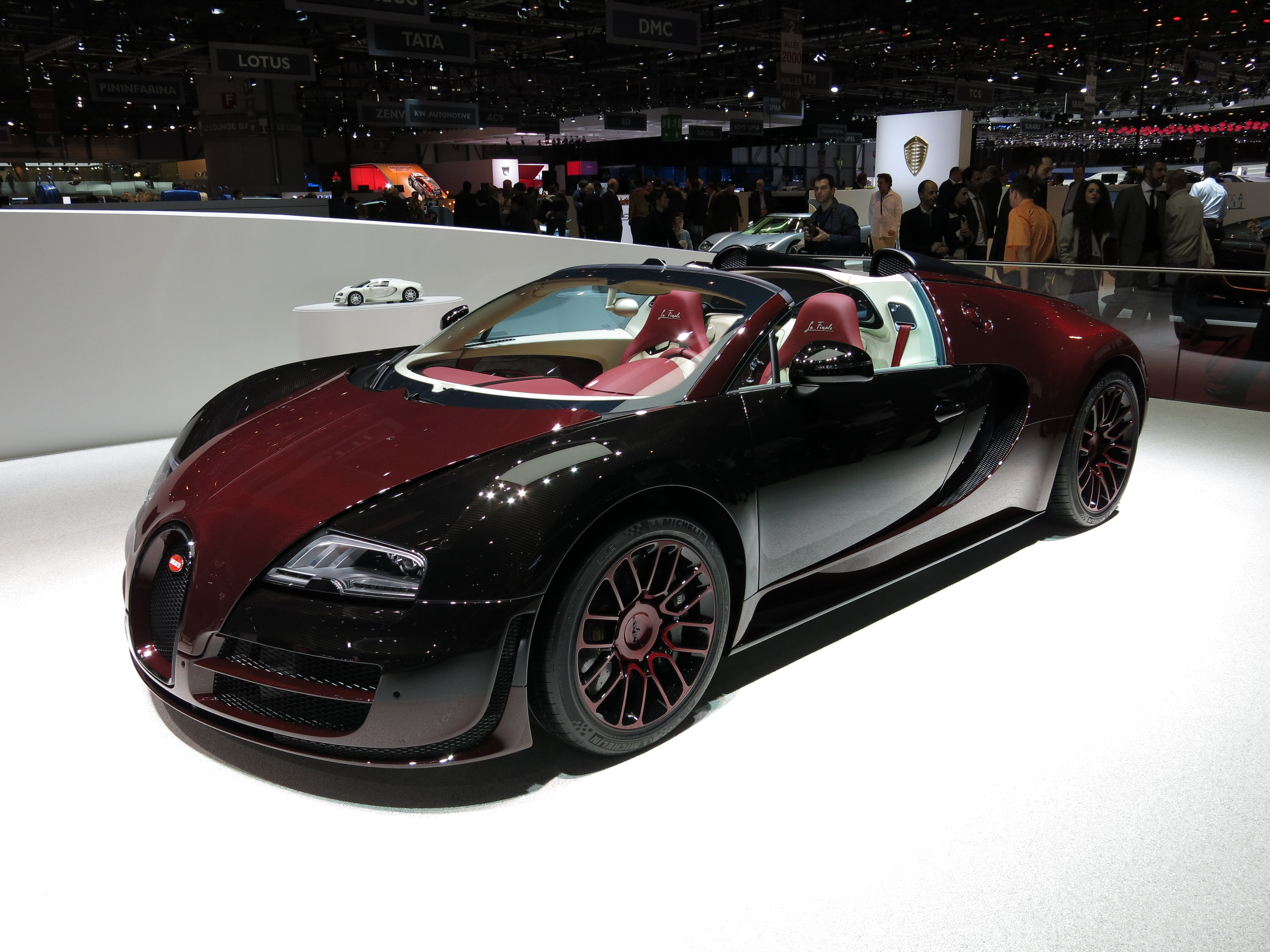 Geneva Motor Show 2015 (photo taken on the first press day)